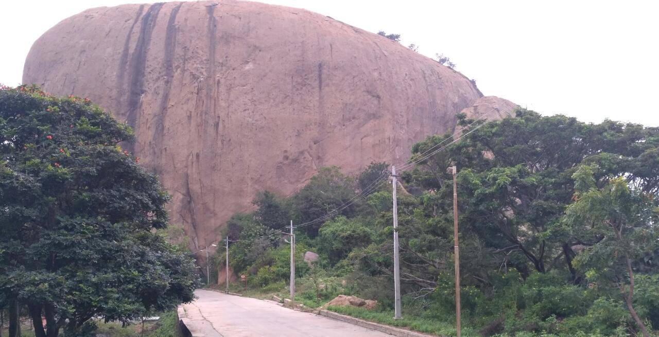 A view of SRS hills, taken near its foothills.